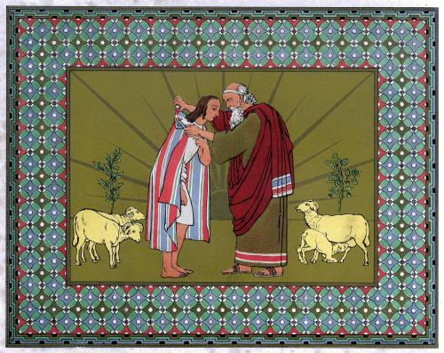 Illustration by Owen Jones from "The History of Joseph and His Brethren" (Day & Son, 1869). Scanned and archived at where it was marked as Public Domain. Text from Book: Now Israel loved Joseph more than all his children, because he was the son of his old age, and he made him a coat of many colours. Genesis, C.XXXVII. V. 3.